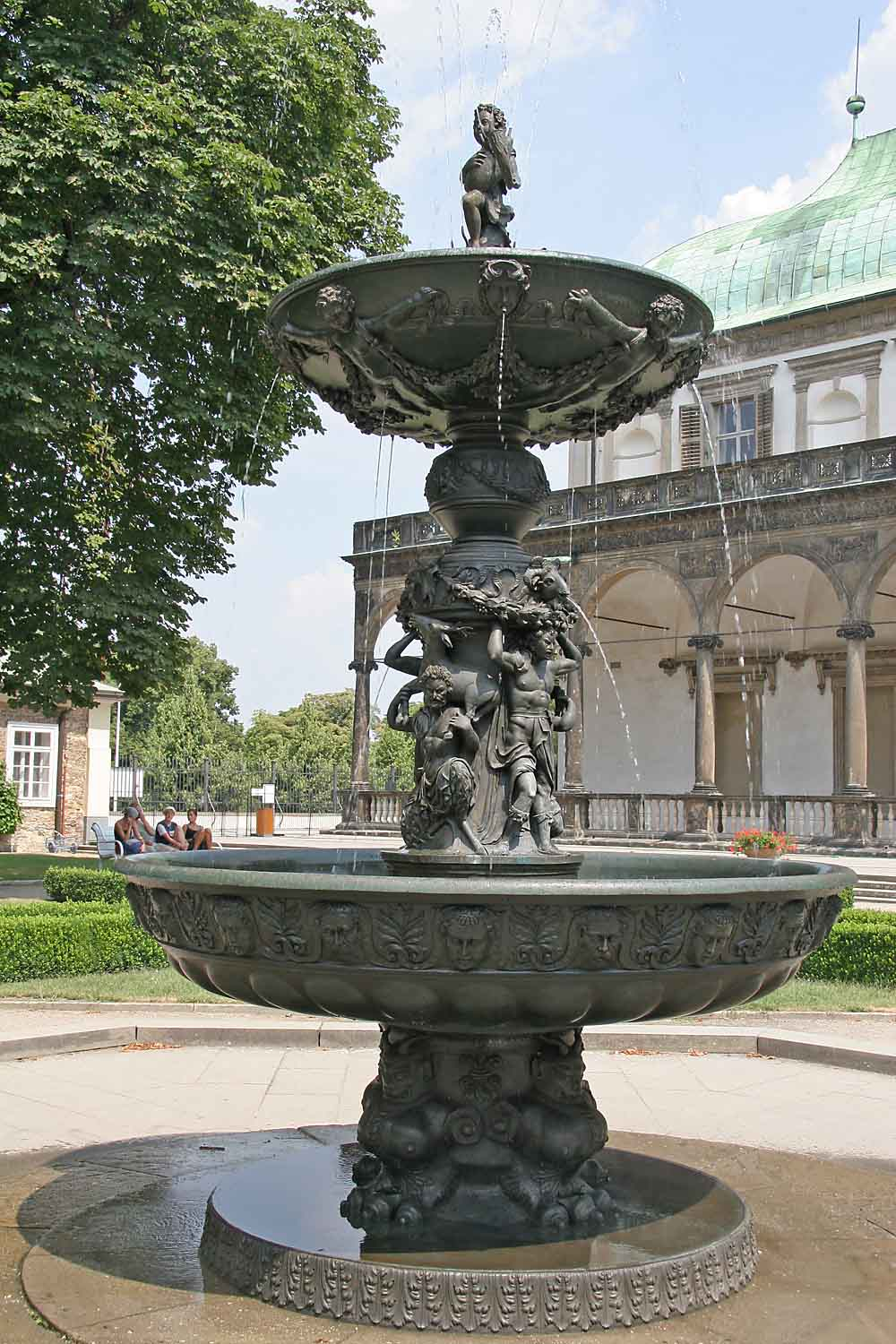 the Singing Fountain in the Belvedere's Garden of Prague Castle